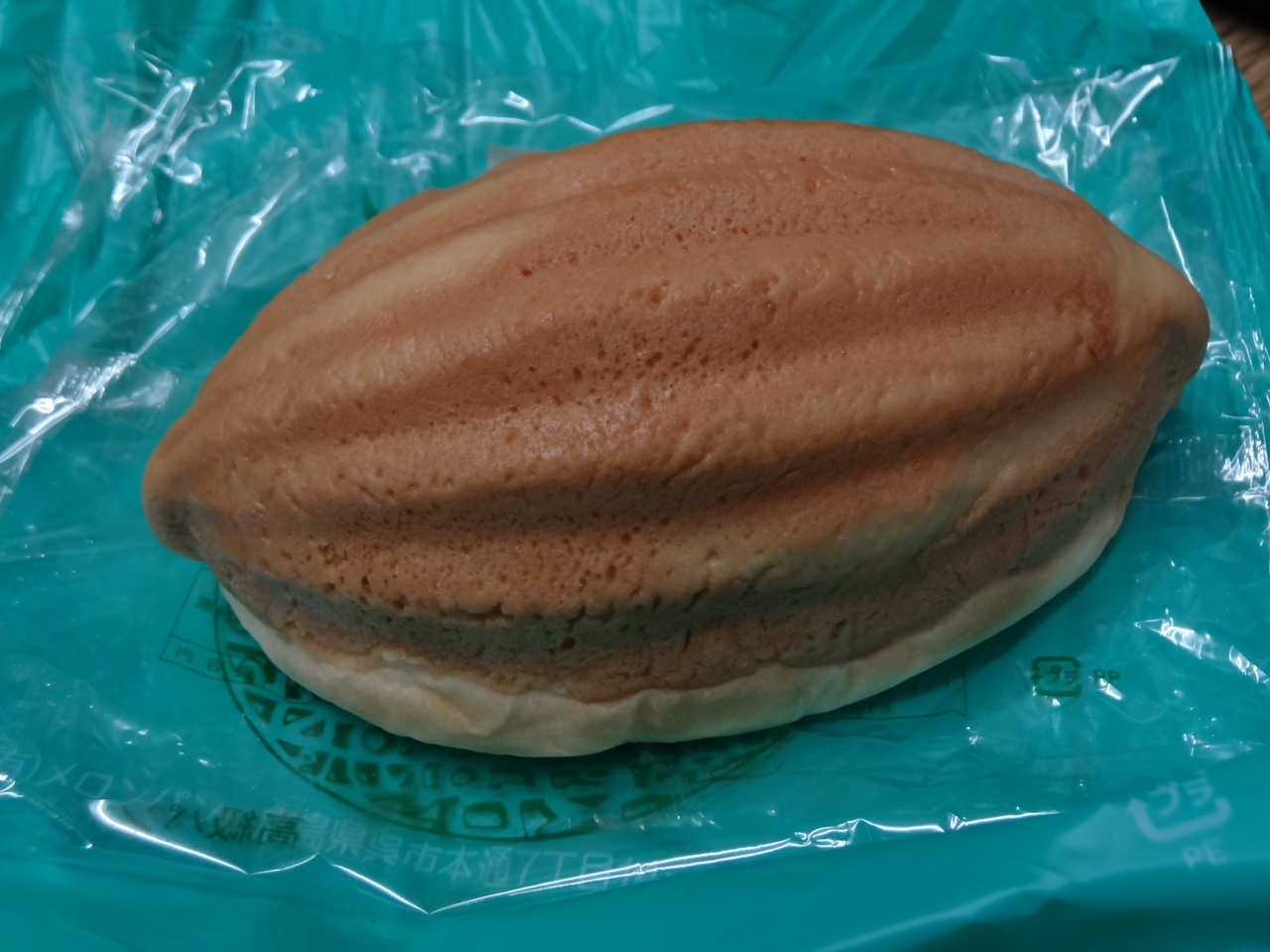 The "Melonpan" in Kure City, Hiroshima Prefecture, Japan.